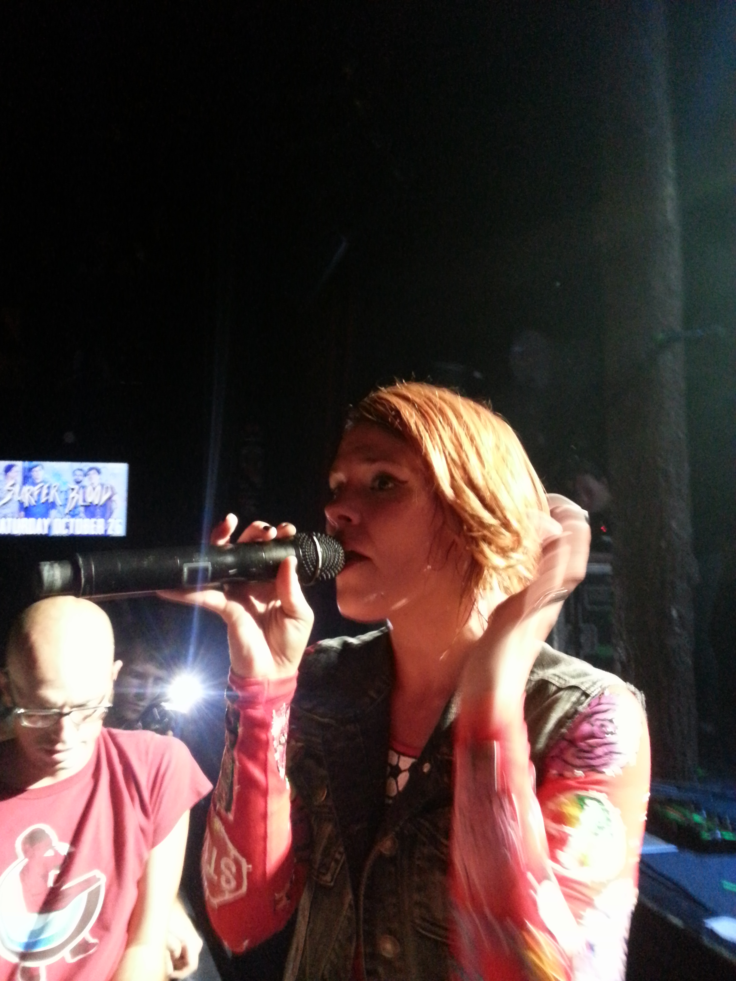 Kristen May performing with Flyleaf in 2013